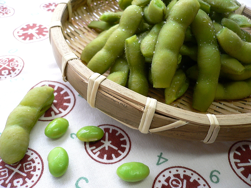 boiled green soybeans枝豆 (edamame)